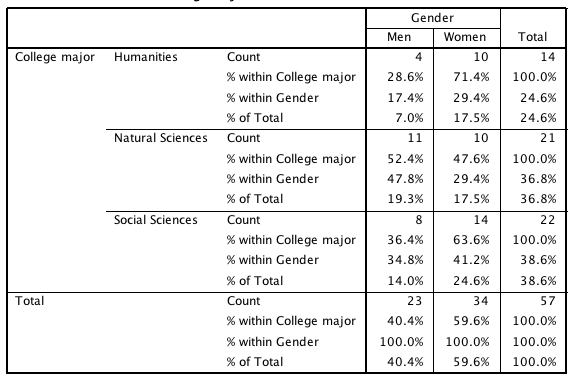 This table is an adaptation of the the table presented in question 1 at the bottom of Contingency Tables in Online Statistics Education: A Multimedia Course of Study Project Leader: David M. Lane, Rice University